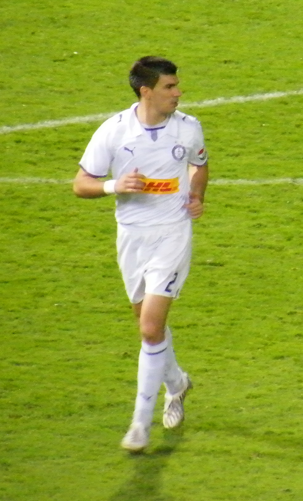 Ivan Dudić Serbian association football player.